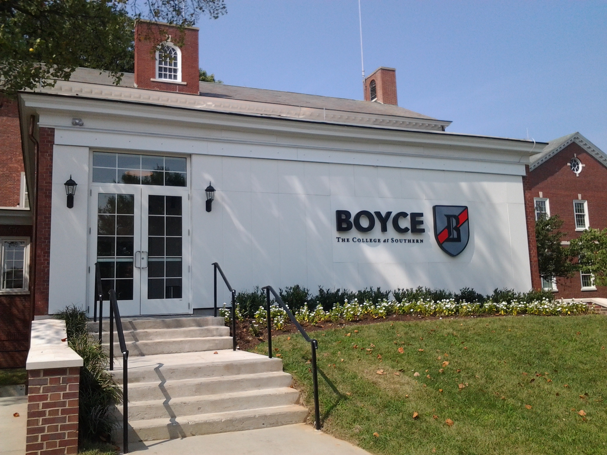 Main entrance to Sampey Commons at Boyce College.